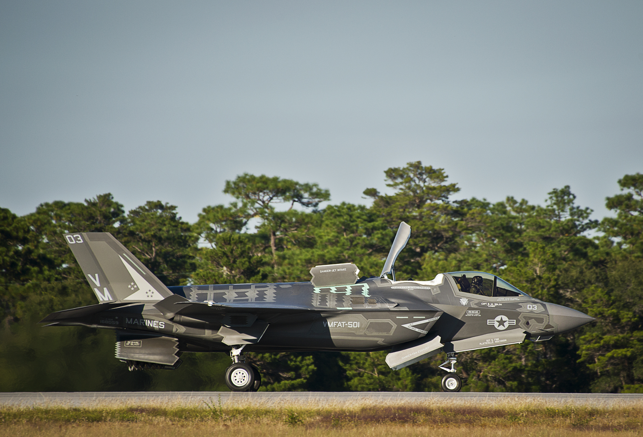 A U.S. Marine Corps Lockheed Martin F-35B Lightning II (BuNo 168059) on the runway during the first short take-off and vertical landing mission at Eglin Air Force Base, Florida (USA), on 24 October 2013. The milestone training mission was flown by Major Brendan M. Walsh of Marine Fighter Attack Training Squadron 501. Walsh qualified in vertical landing operations at Marine Corps Air Station Yuma, Arizona (USA), in preparation for this mission.